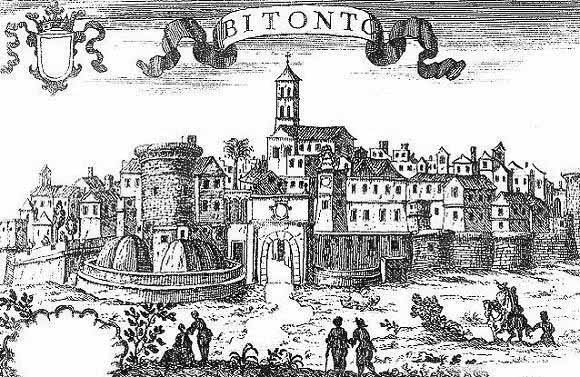 old reprodution of bitonto